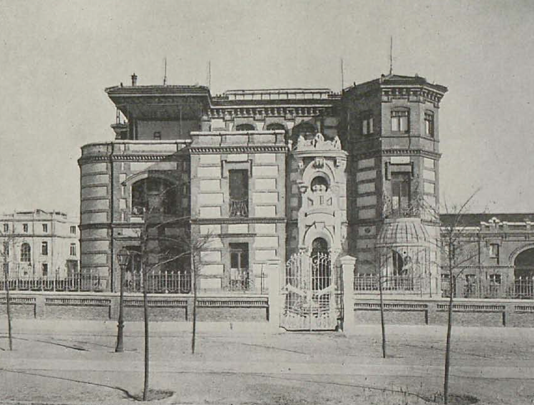 Fachada. Hotel propiedad de Félix de la Torre, en la calle de Velázquez, en Madrid.